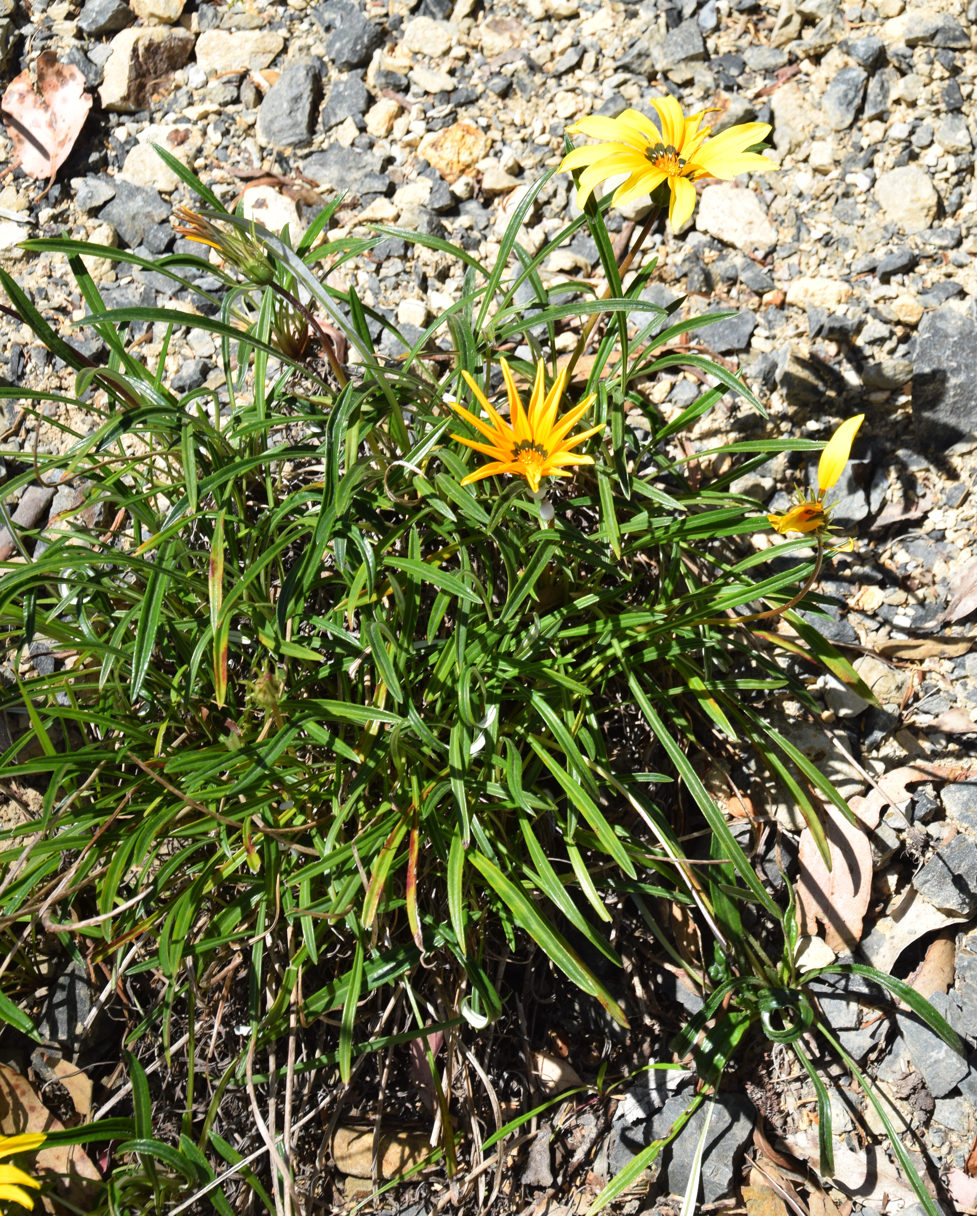 Gazania linearis in Dunedin Botanic Garden, Dunedin, New Zealand